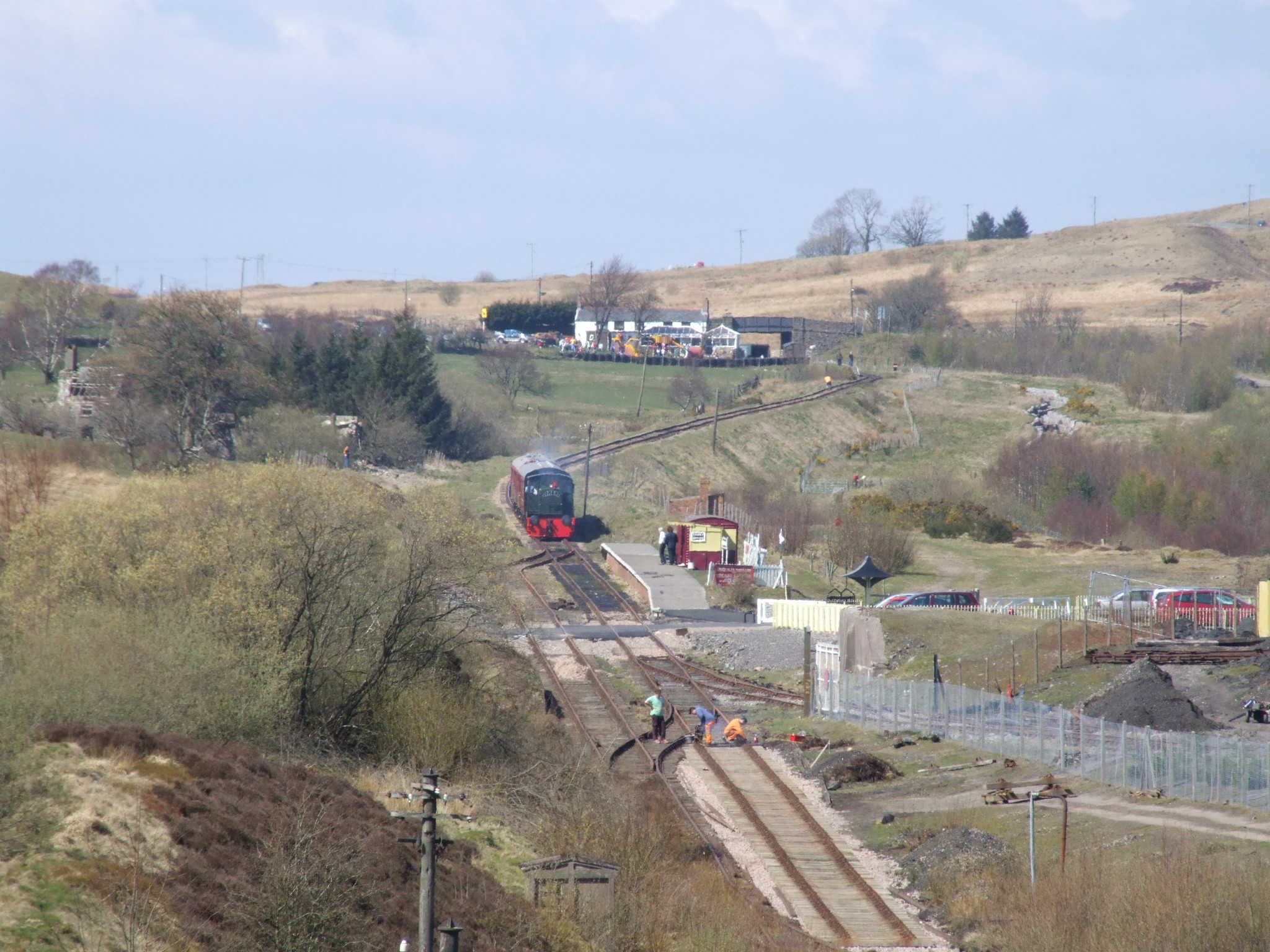 Furnace sidings on the Pontypool & Blaenavon Railway. Both of its current stations are visible in this picture.